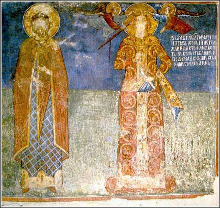 Fresco of Vuk and Stefan Lazarević in Ljubostinja, near Trstenik, Serbia.